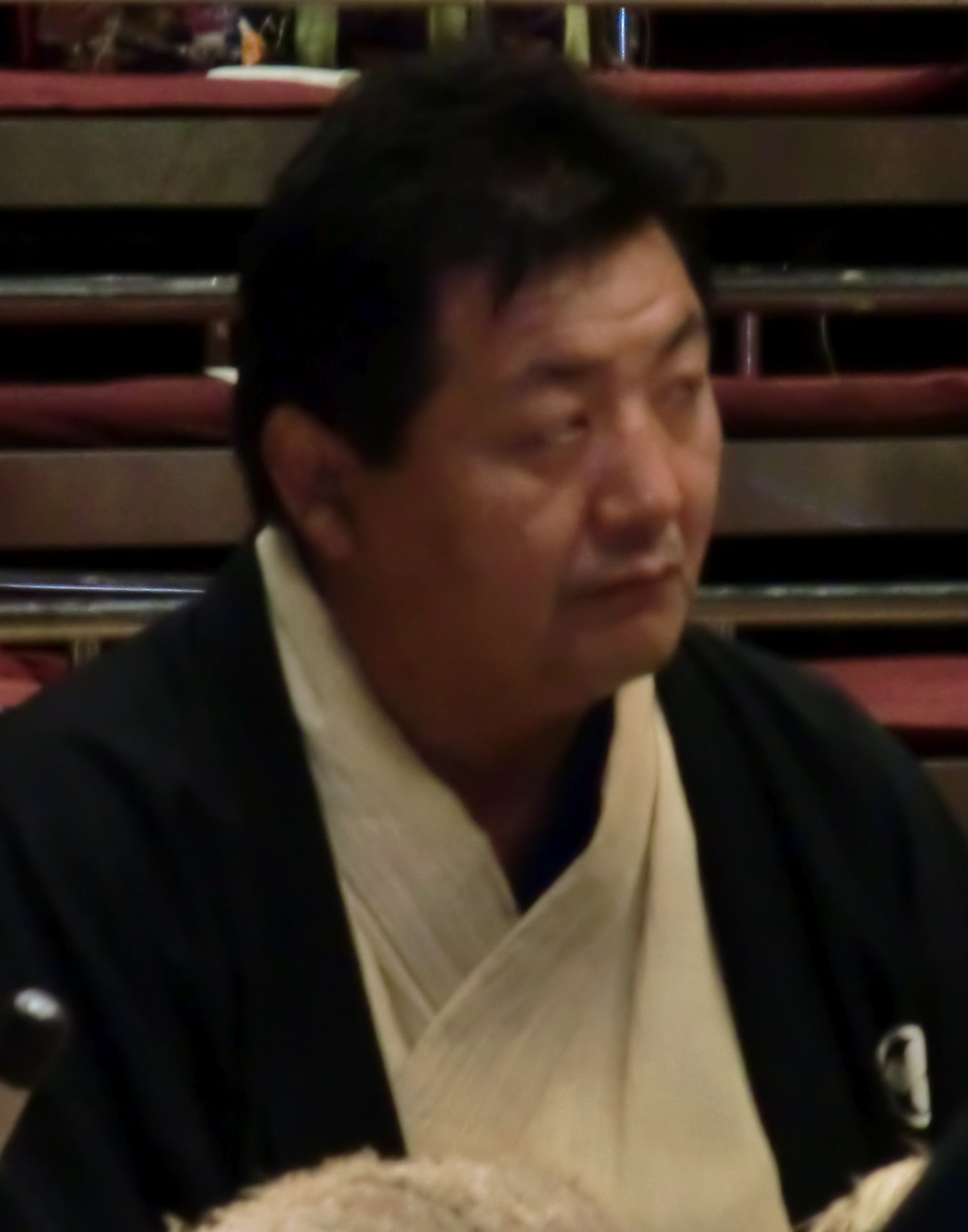 taken at 2009 Sept tournament